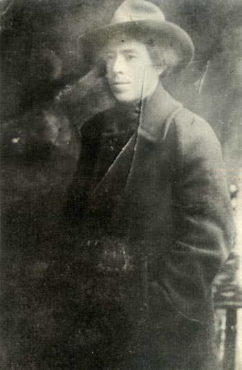 Portrait of IMARO member Todor Chopov from Kukush, son of Rusha Delcheva (sister of Gotse Delchev)